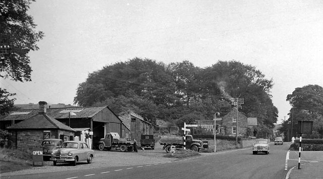 Site of Brampton Town Station. View SW on A69 road, the station having been on the left, the terminus of a short ex-NER branch from Brampton Junction. However, it was closed completely on 31/12/23!